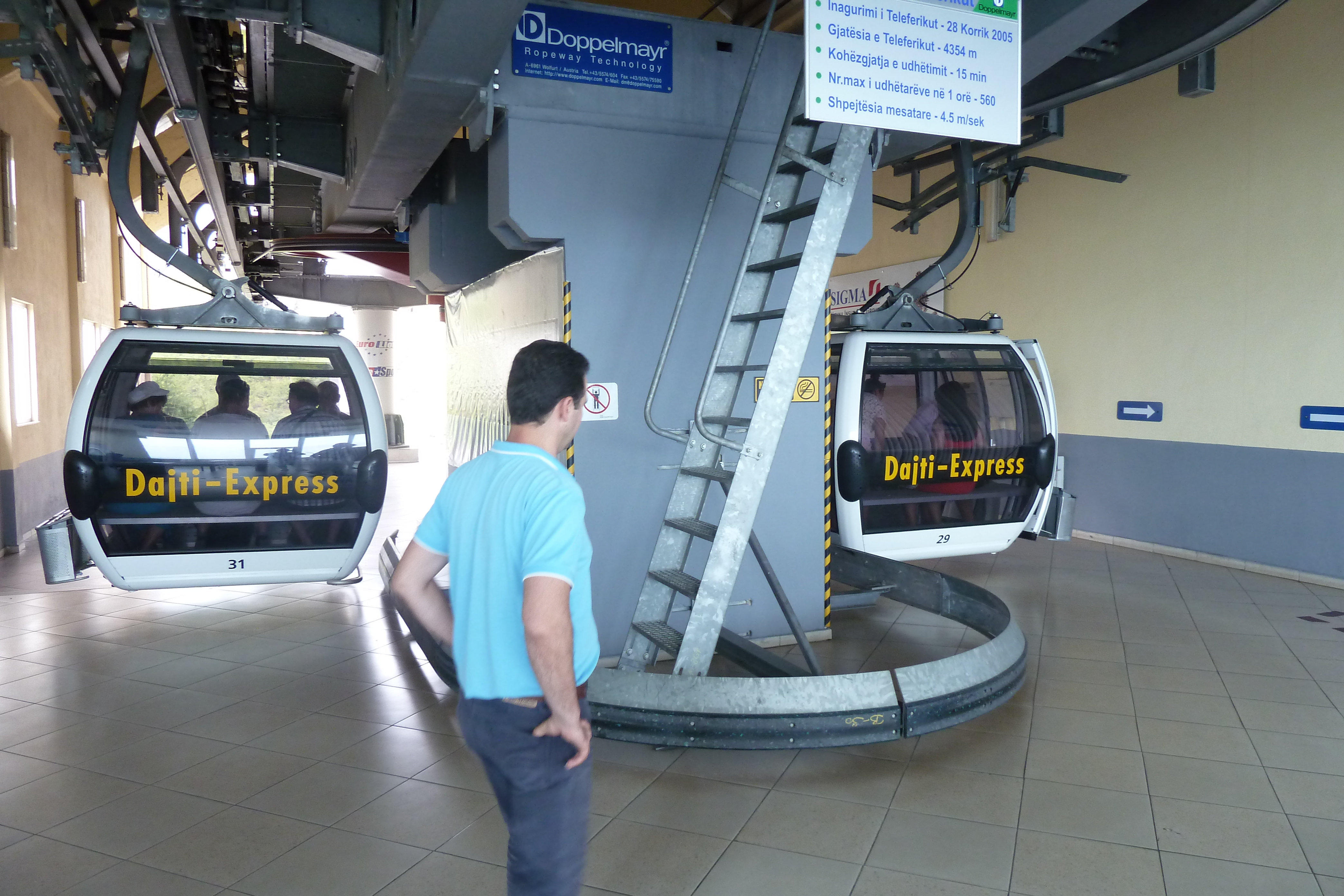 Dajti-Express, Tirana. Bottom point. Entrance/Exit.